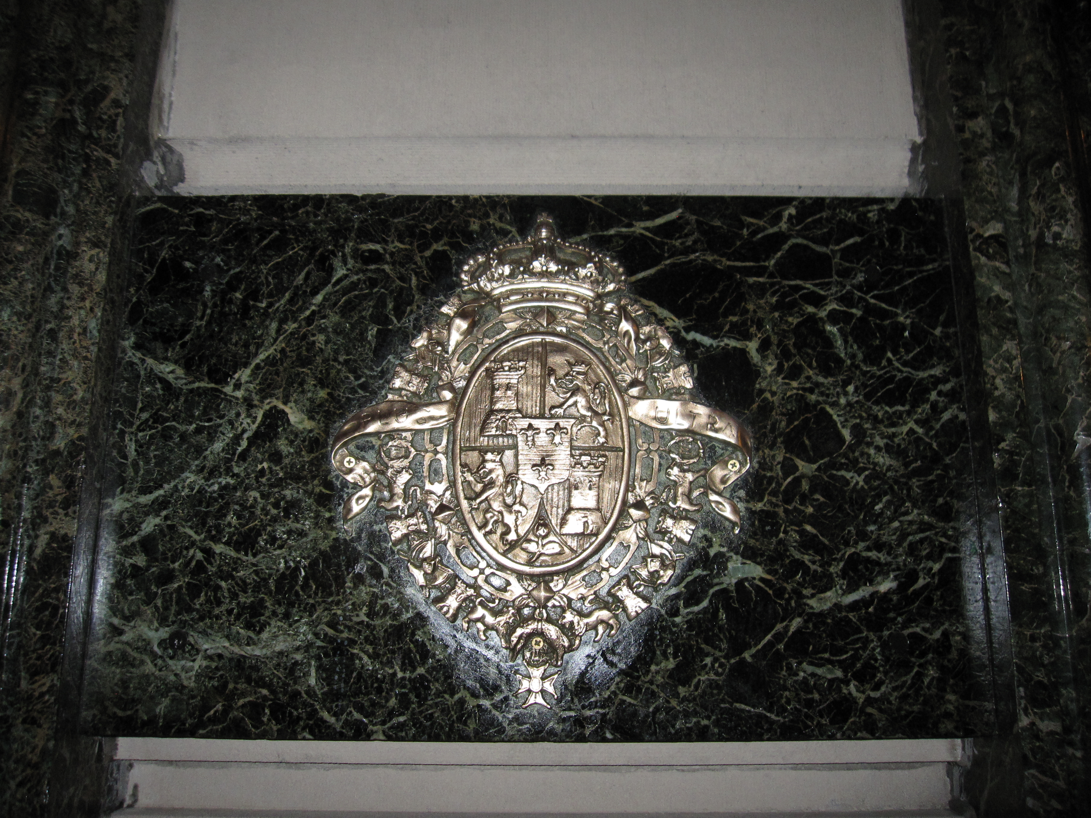 Coat of arms of the monarchies to whom Cartier is/was the royal or imperial purveyor. Taken outside the Cartier house on Fifth Avenue in New York City. It showes us the coat of arms of the royal family of Spain